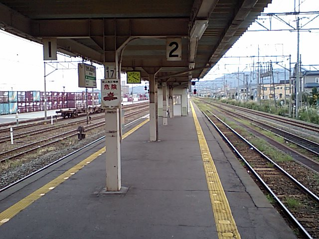 Train platforms at Higashi-Aomori Station in Aomori, Aomori Prefecture, Japan.